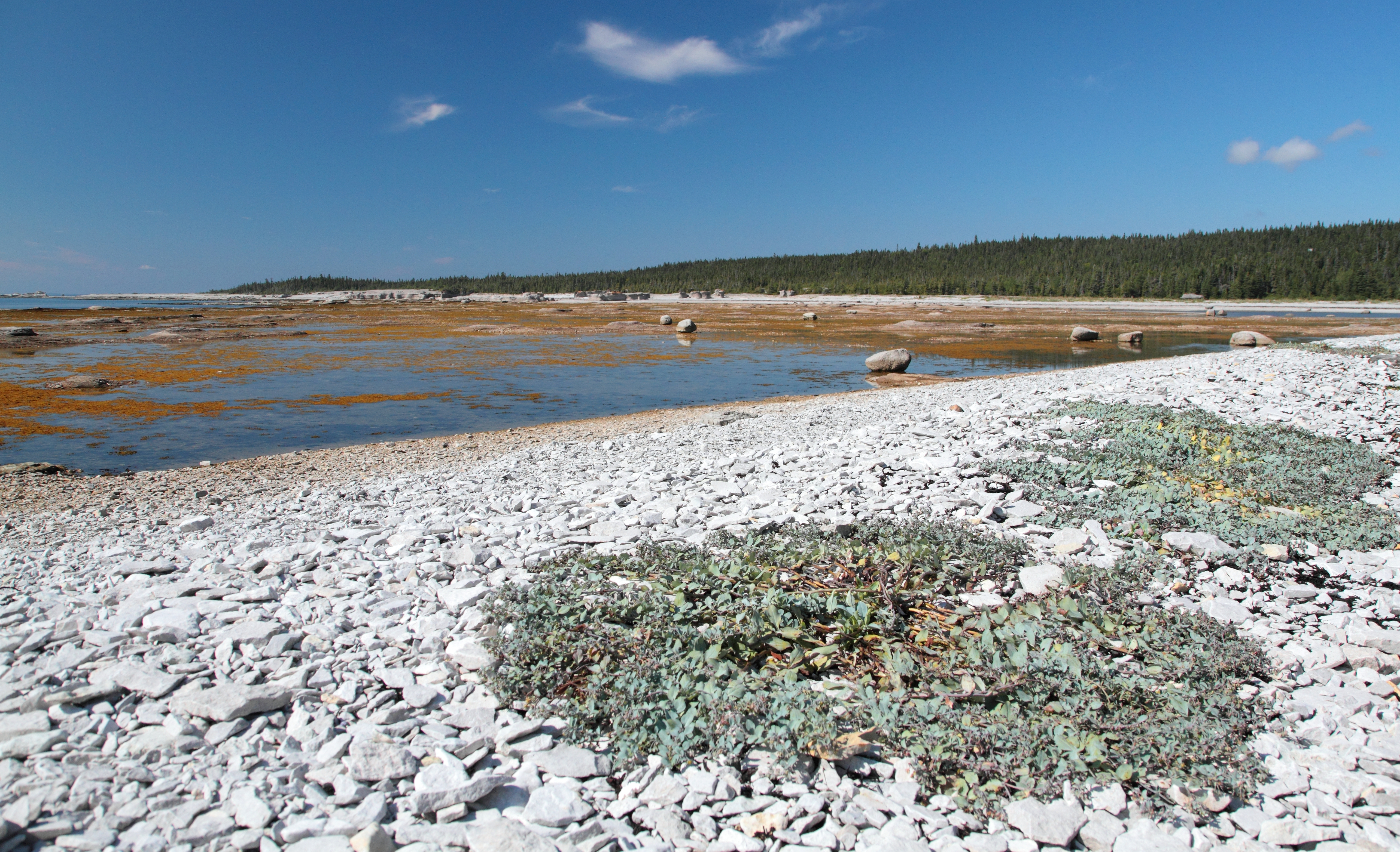 Barren vegetation and intertidal zone on Quarry island, Mingan Archipelago National Park Reserve, Quebec, Canada. Mertensia maritima on the foreground.